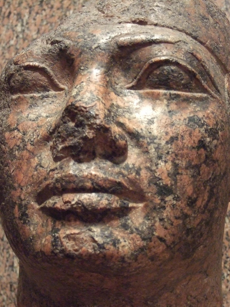 The face of a statue of king Shebitku or Shabataka of the Nubian 25th dynasty of Egypt. Shebitku was succeeded in power after his death by Shabaka. This statue is today located in the Nubian Museum at Aswan in southern Egypt.